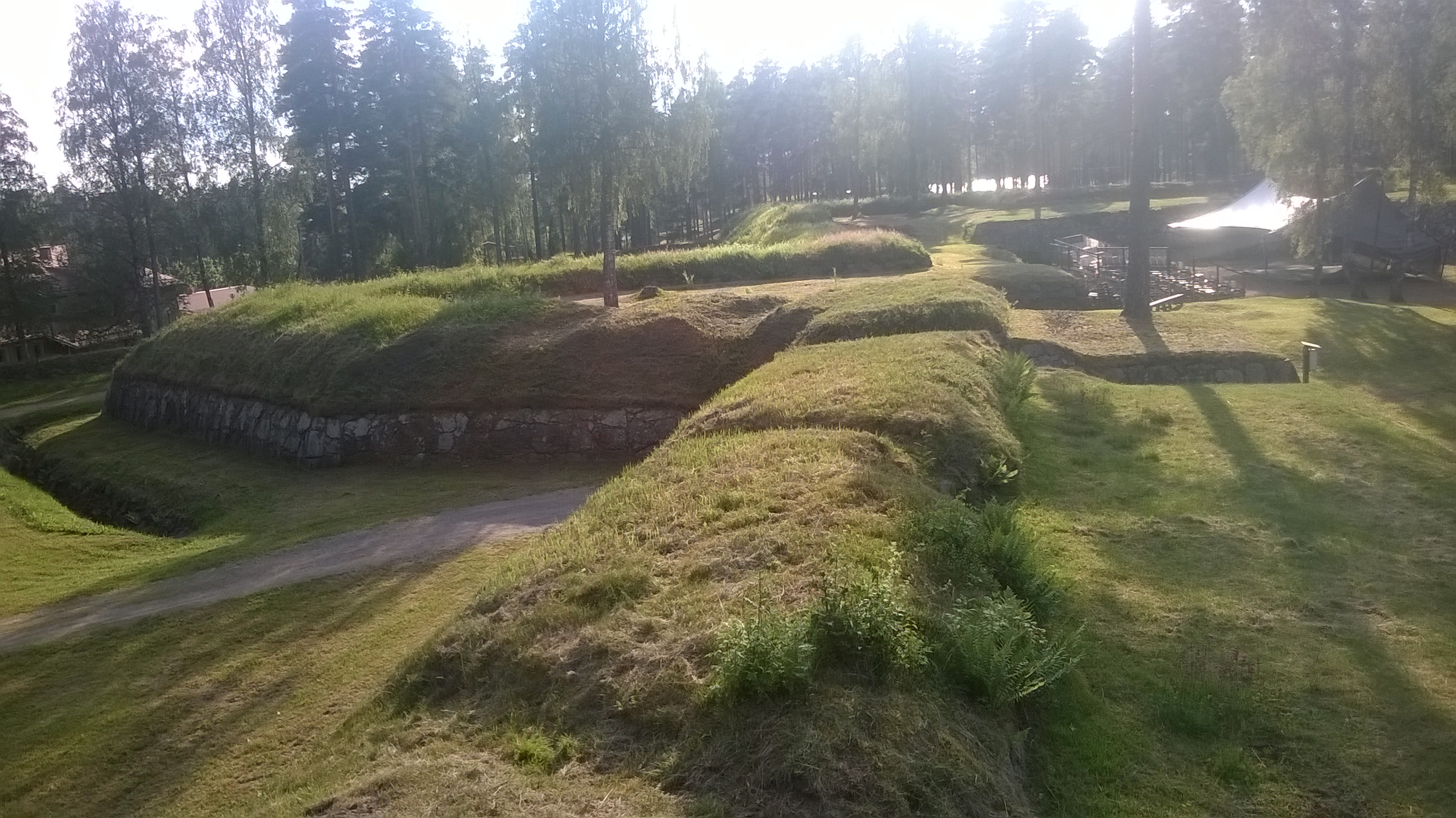 Bastion at Taavetti, Finland